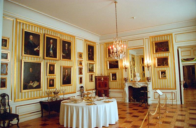 The Yellow Room at the Royal Caslte in Warsaw. Famous Thursday Dinners of king Stanisław Augustus were held here between 1771-1782.